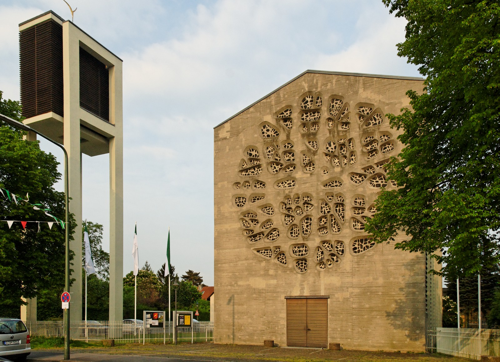 Saint Reinold in Düsseldorf-Vennhausen, Germany